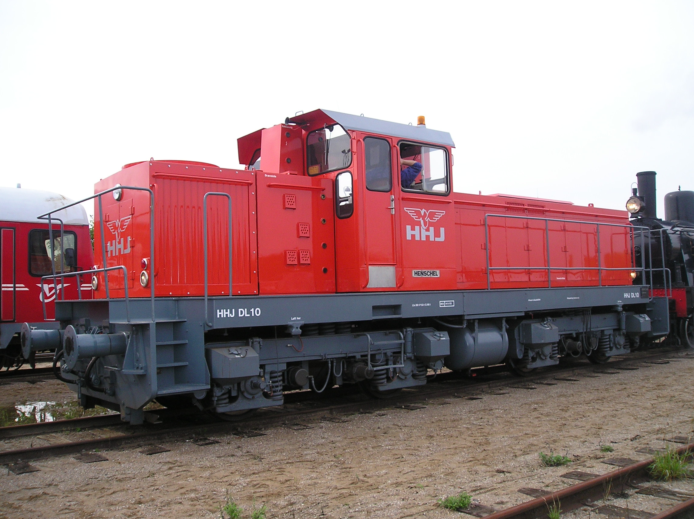 Danish diesel locomotive HHJ DL 10 at Danmarks Jernbanemuseum in Odense.